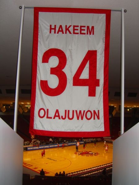 Photo by Nick Juhasz.